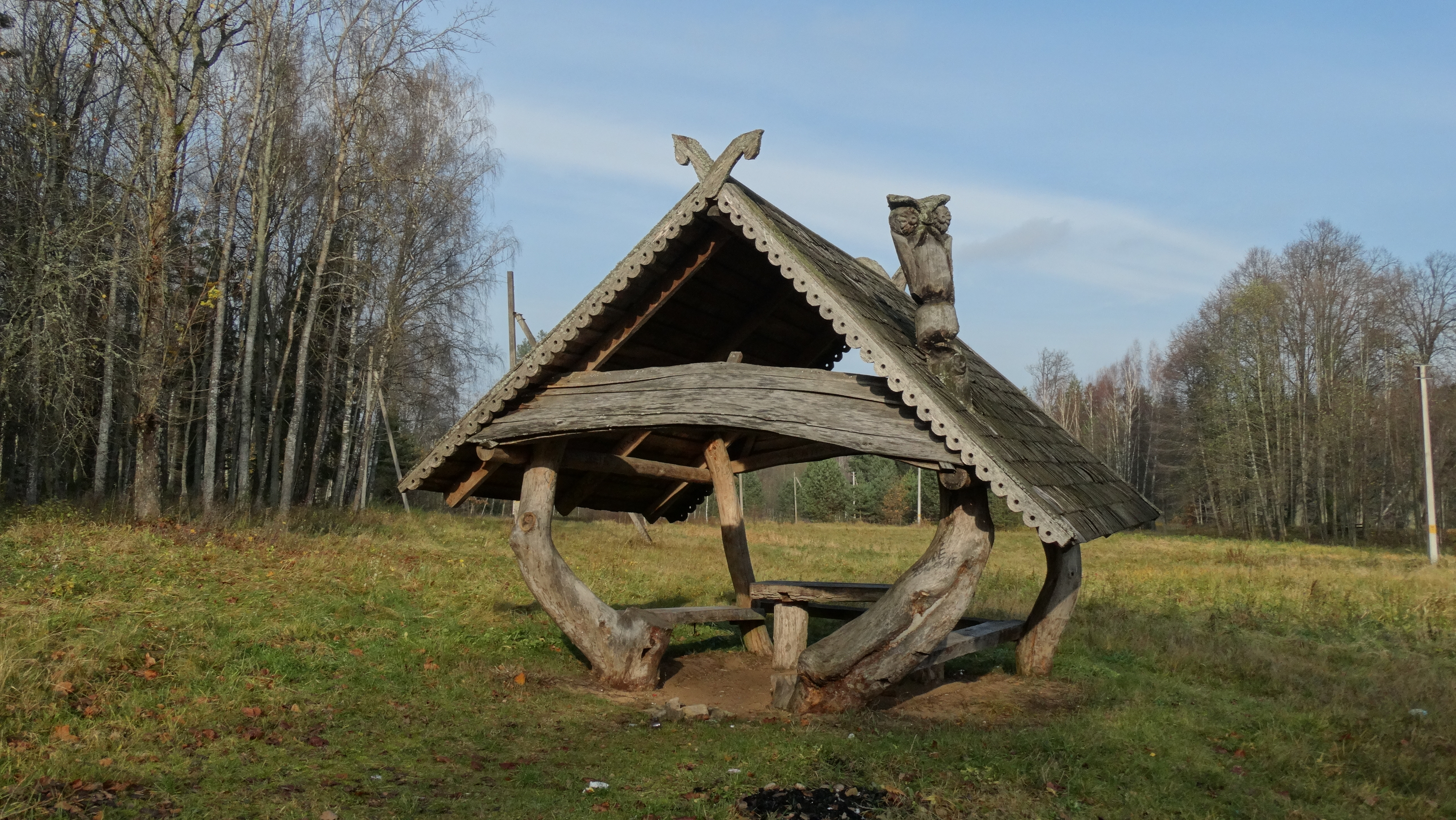 Picnic shelter, Pašventys, Jurbarkas District, Lithuania